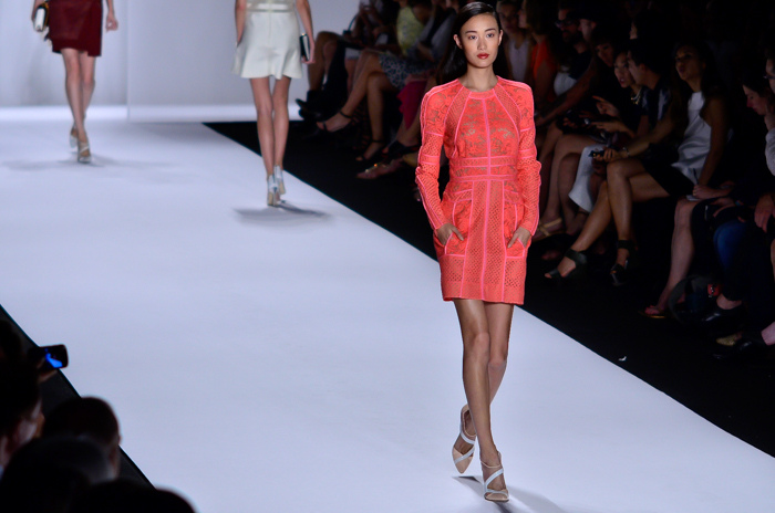 Chinese model Shu Pei